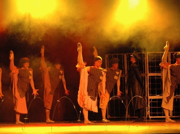 hiding place, holocaust, ballet